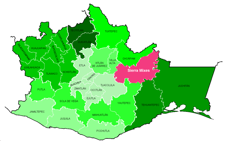 map showing the location of the sierra mixe within oaxaca